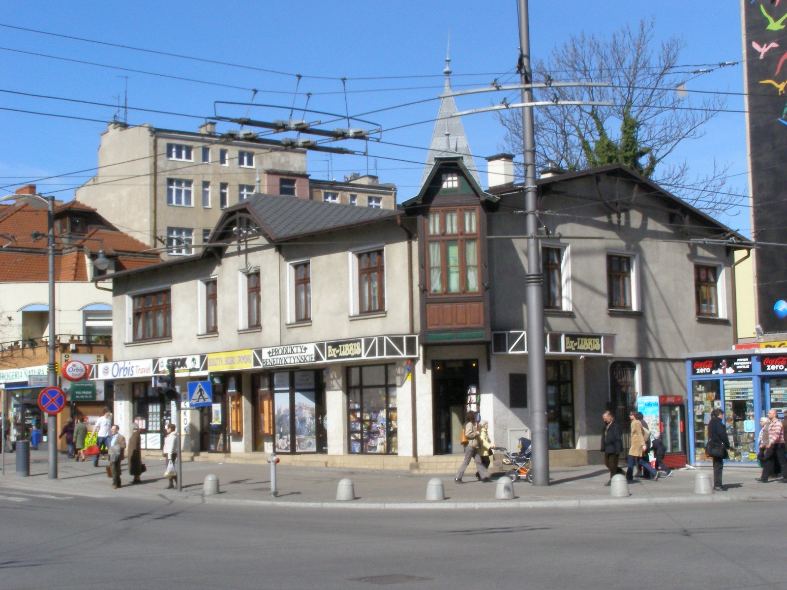 Gdynia - house of Jan Radtke